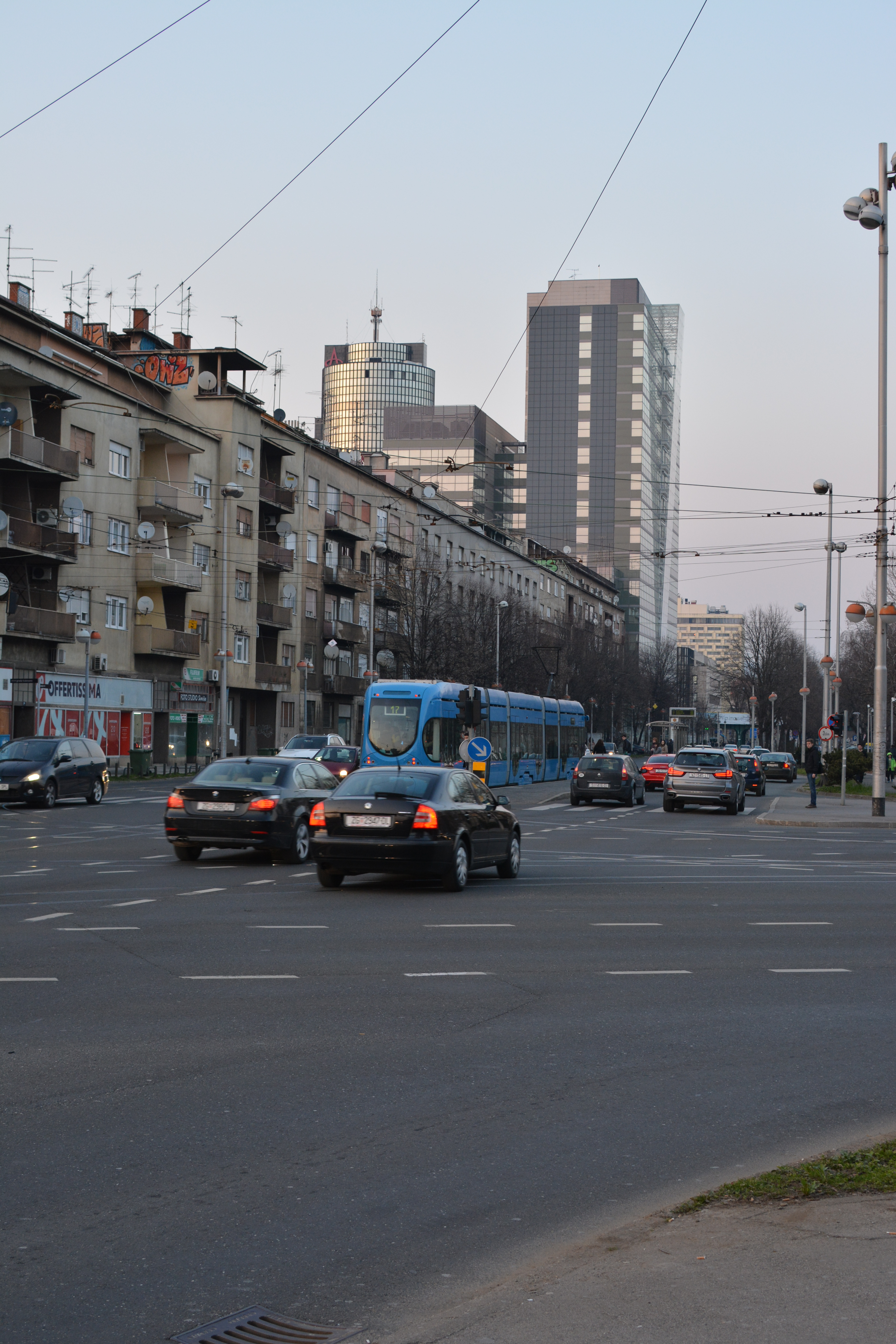 Savska Street, Zagreb.